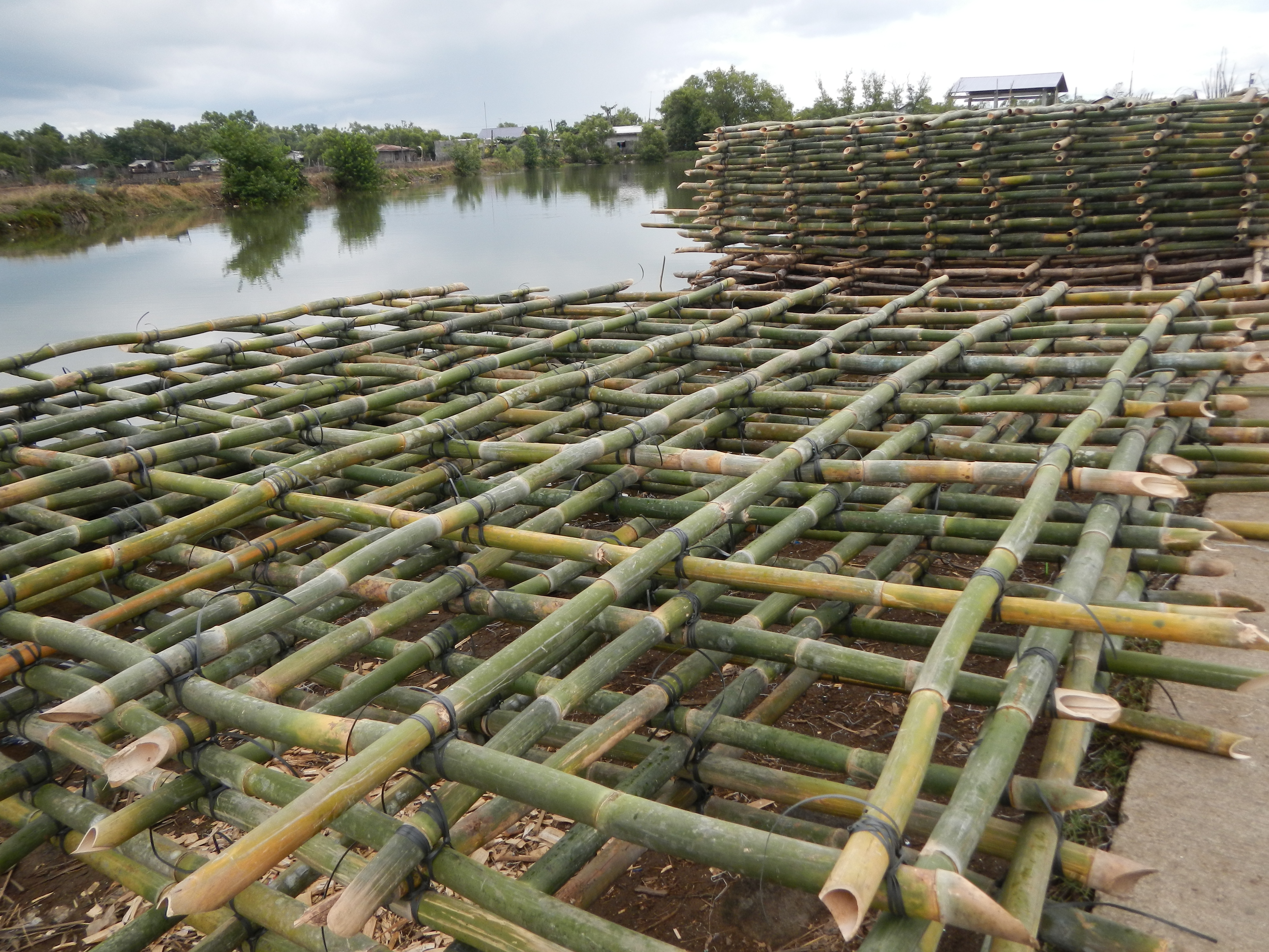 Abucay, Bataan[1][2][3]Coordinates: 14°43'34"N 120°28'10"E Bamboos for mussel culture, breeding and propagation